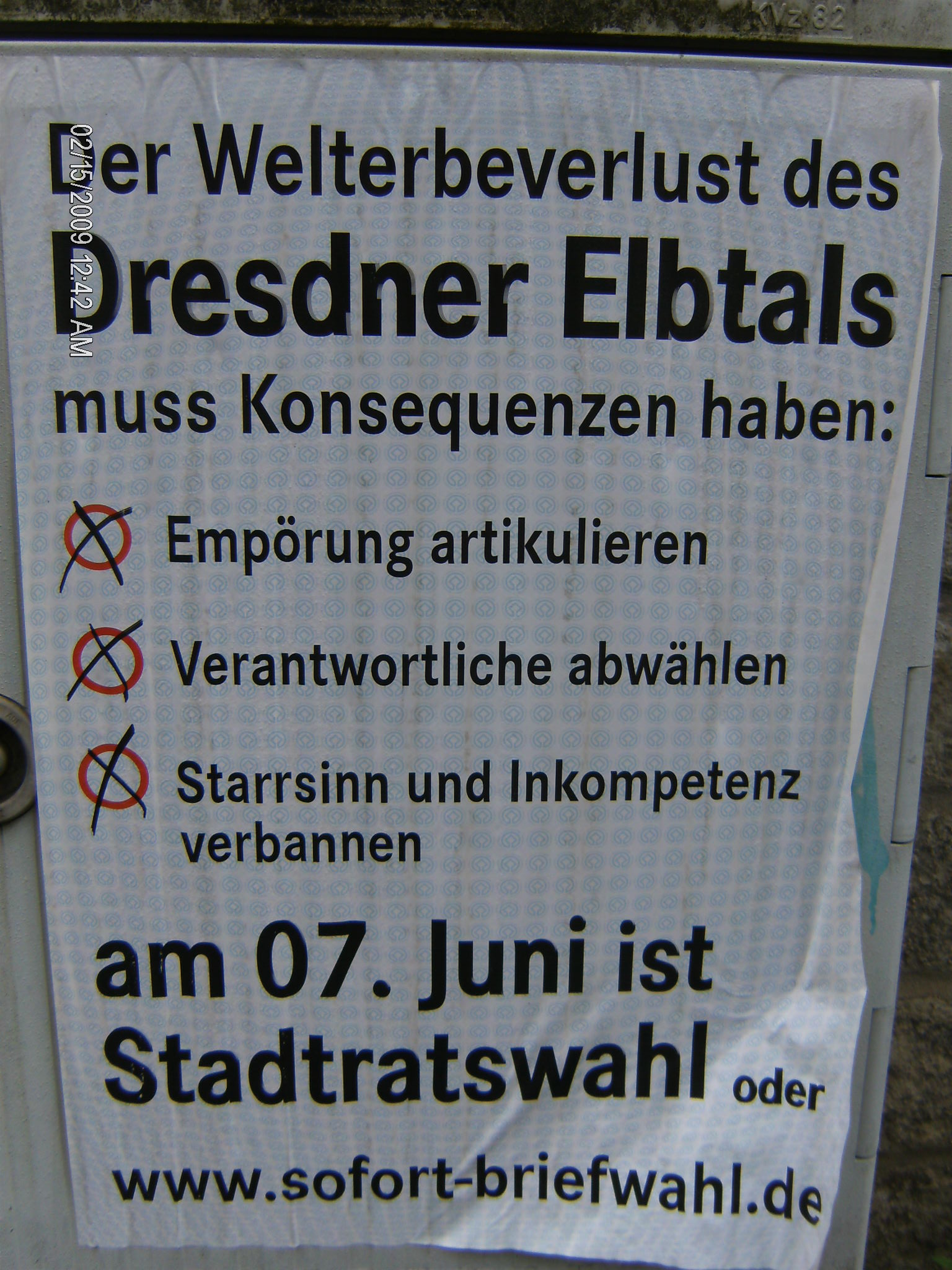 political poster during the campaign before election of Dresden city council on 2009-06-07